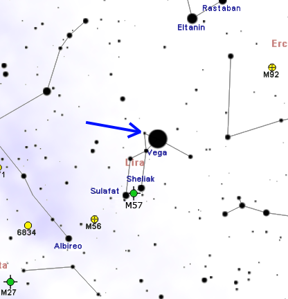 Epsilon Lyrae